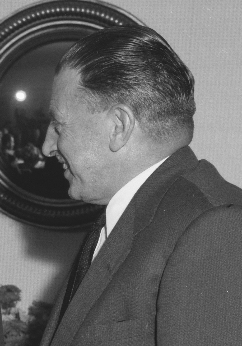 Agreement signed Irish Legation and C. Verolme Verolme (left) and Lemass (right)